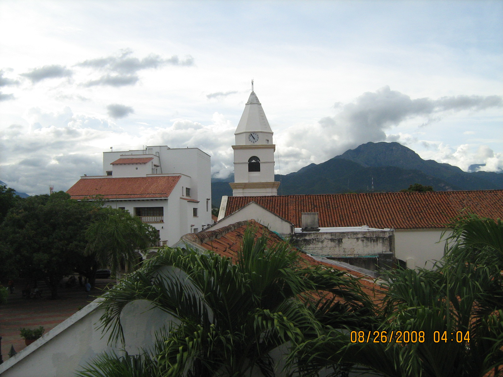 Zona Colonial de Valledupar